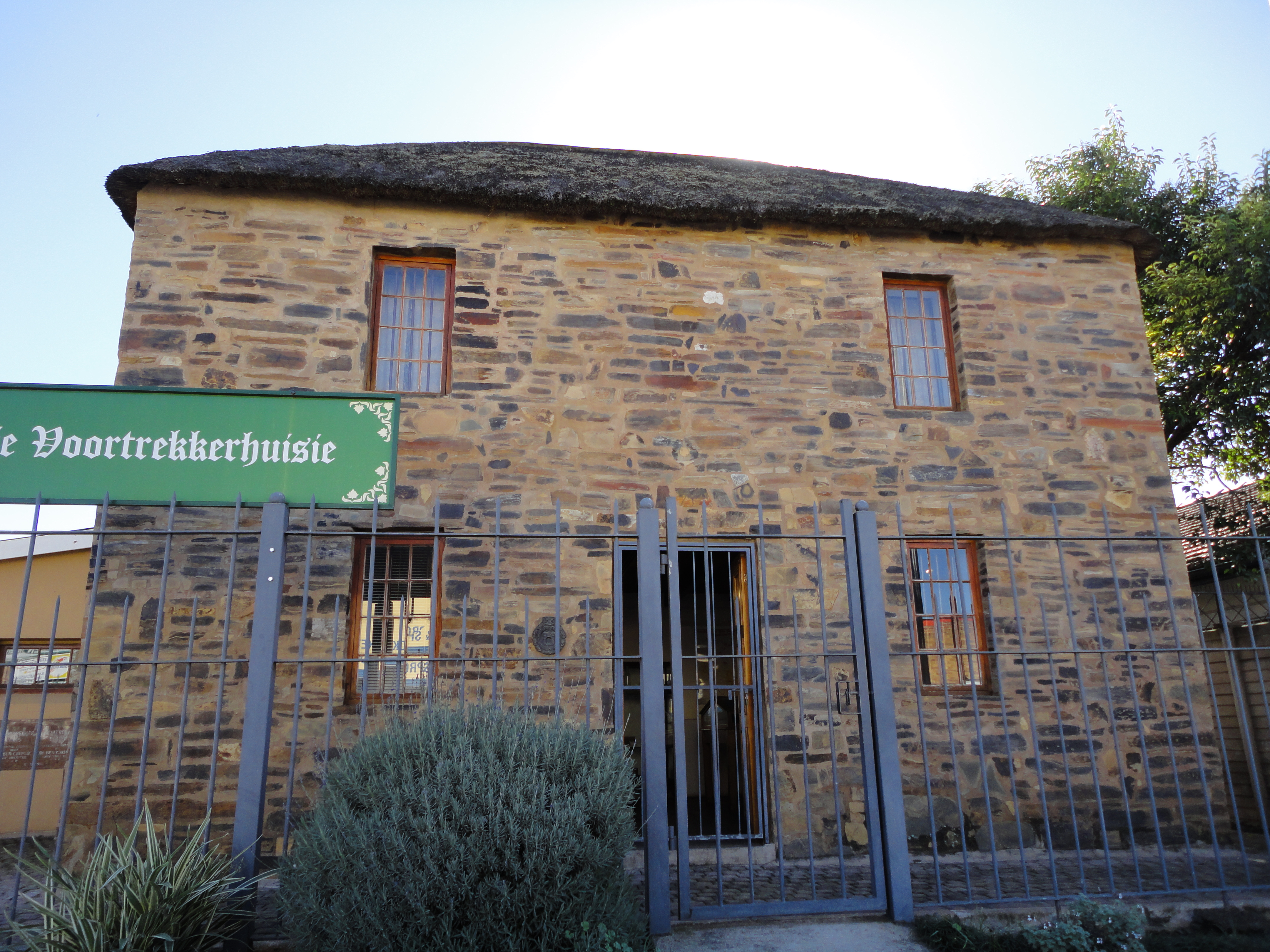 Street front of the Voortrekker House Museum, 333 Boom (Cnr Claybourne) Street, Pietermaritzburg - a Provincial Heritage Site. The museum was opened on August 8, 1987, by Dr. Ben Cronjé, chief director of the FAK.